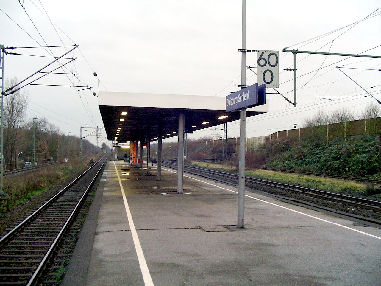 Duisburg Schlenk S-Bahn stop, Germany